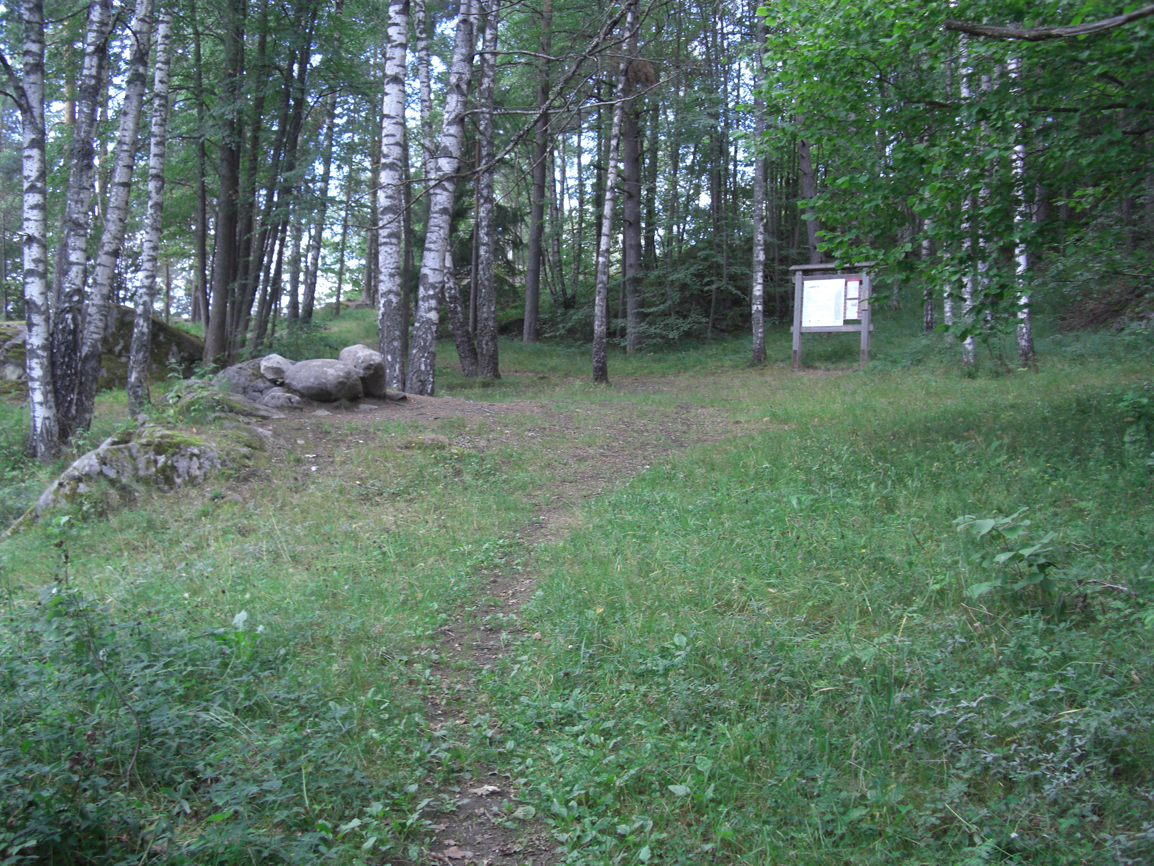 Stone Age site Nøstvet